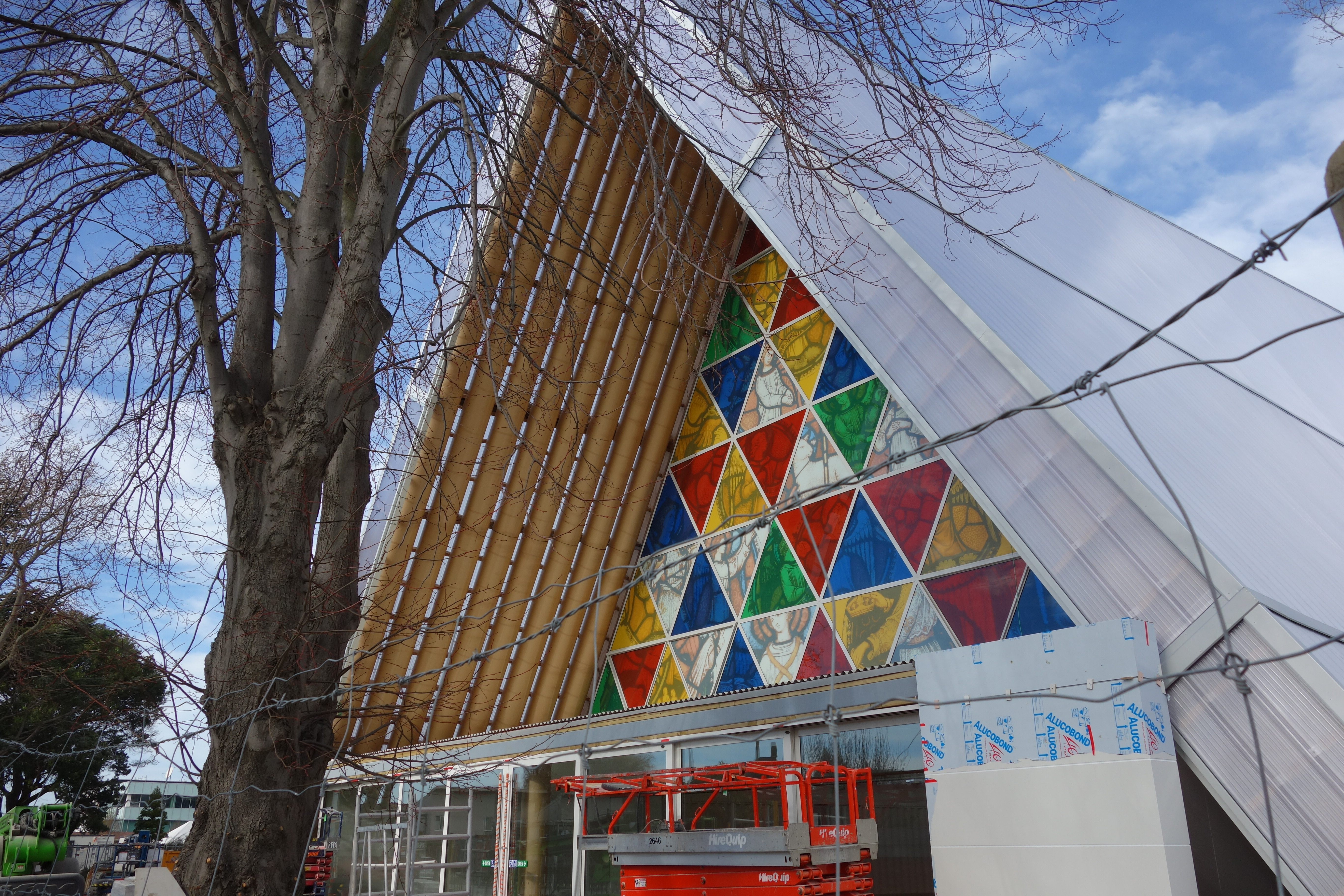 Cardboard Cathedral in July 2013